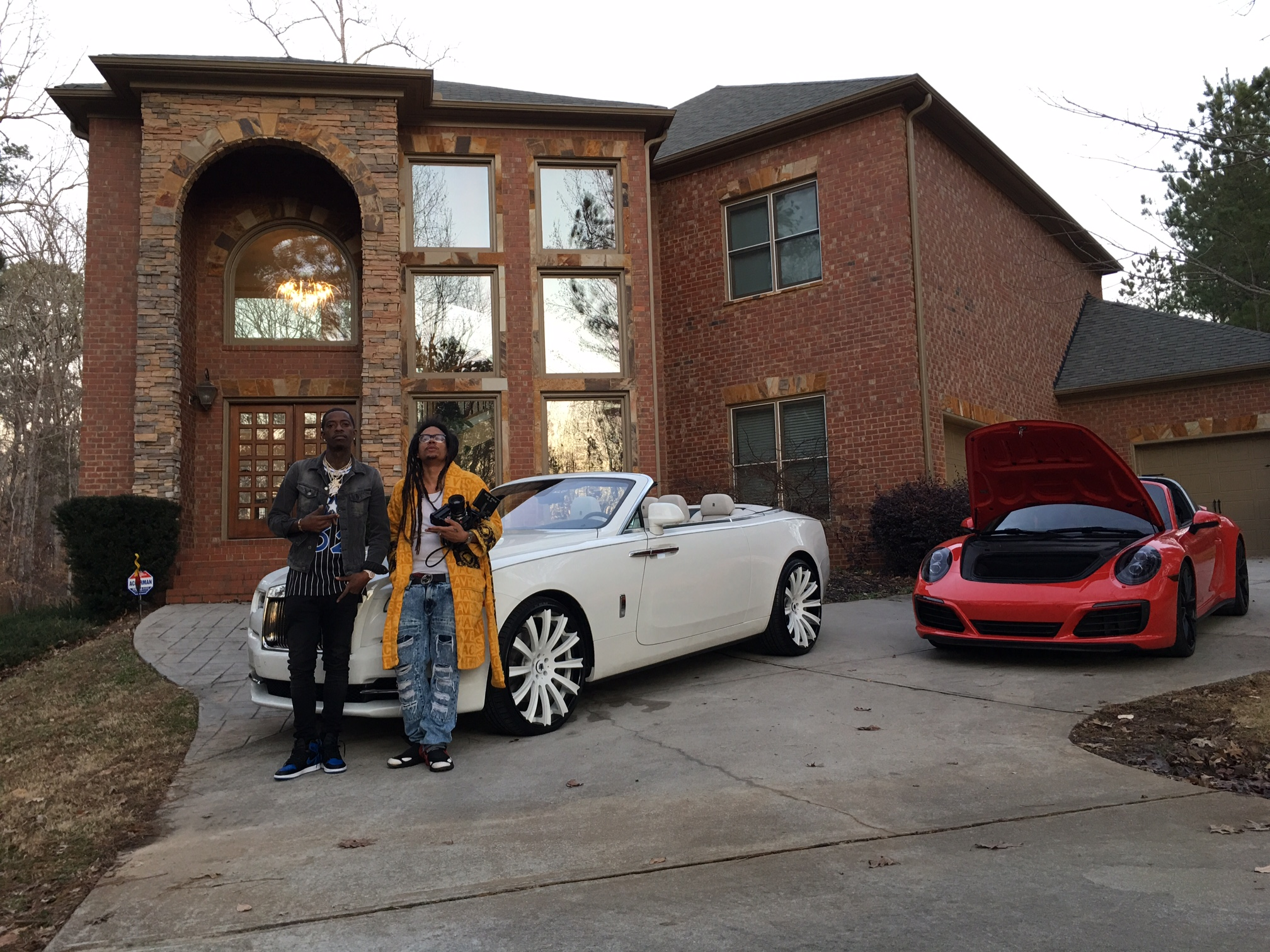 Director Charles M Robinson with Rapper Rich Homie Quan